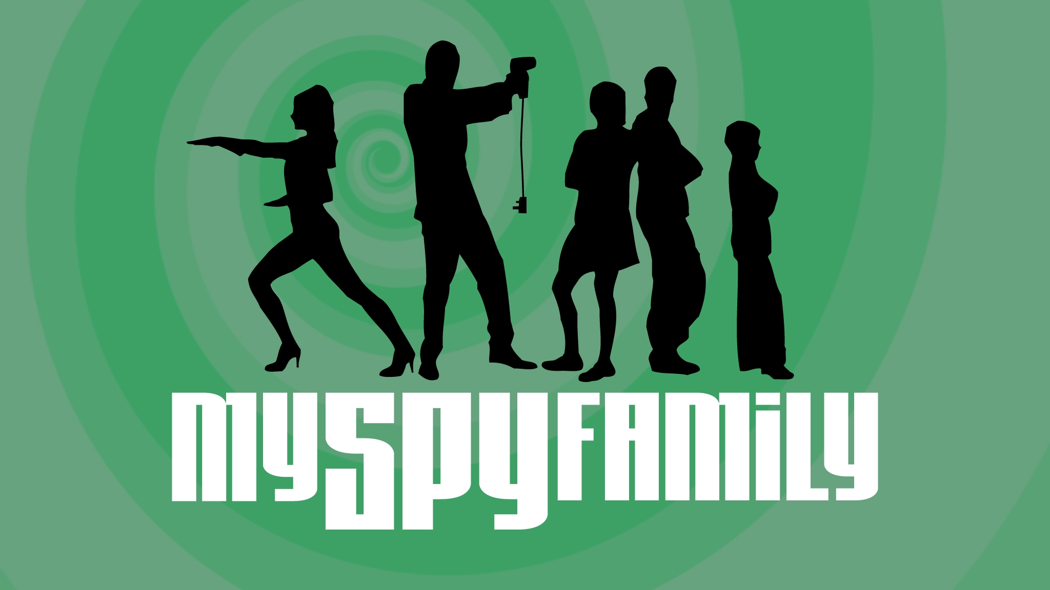 Logo for My Spy Family